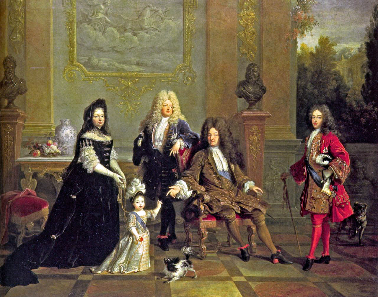 Note - a composite portrait of the Bourbon succession, made in the period 1715-1720. At the centre of the portrait is the Sun King, Louis XIV, most illustrious of his dynasty. His father (Louis XIII) and grandfather (Henry IV) are shown as busts. At the King's right is his son, Louis the Grand Dauphin; to the king's left is his eldest grandson, Louis, Duke of Burgundy. Both predeceased Louis XIV. The king gestures to his great-grandson, Louis Duke of Brittany, symbolising the older man's approval of his young heir. Madame de Ventadour, the young duke's governess (and the only non-royal in the painting) holds her charge's reins. Her presence references her role in "saving" the dynasty in the measles epidemic of 1712. [1 .